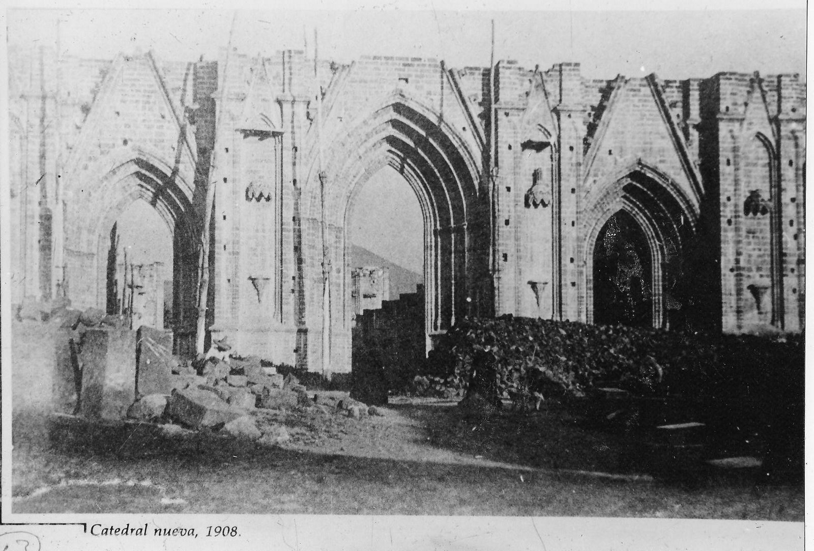 inicio de la construccion de la nueva catedral de zamora. 1900